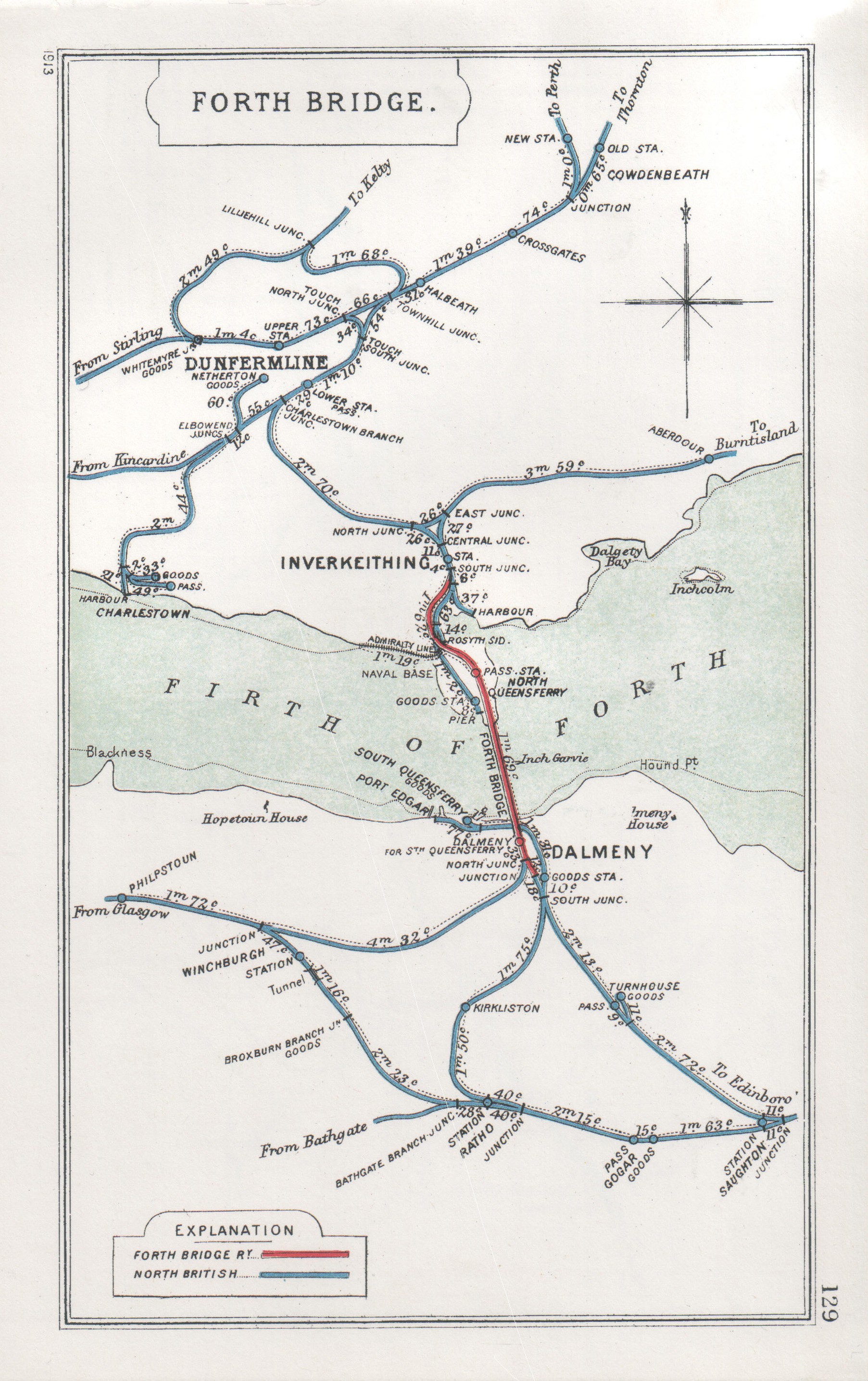 Pre Grouping railway junction around Forth Bridge